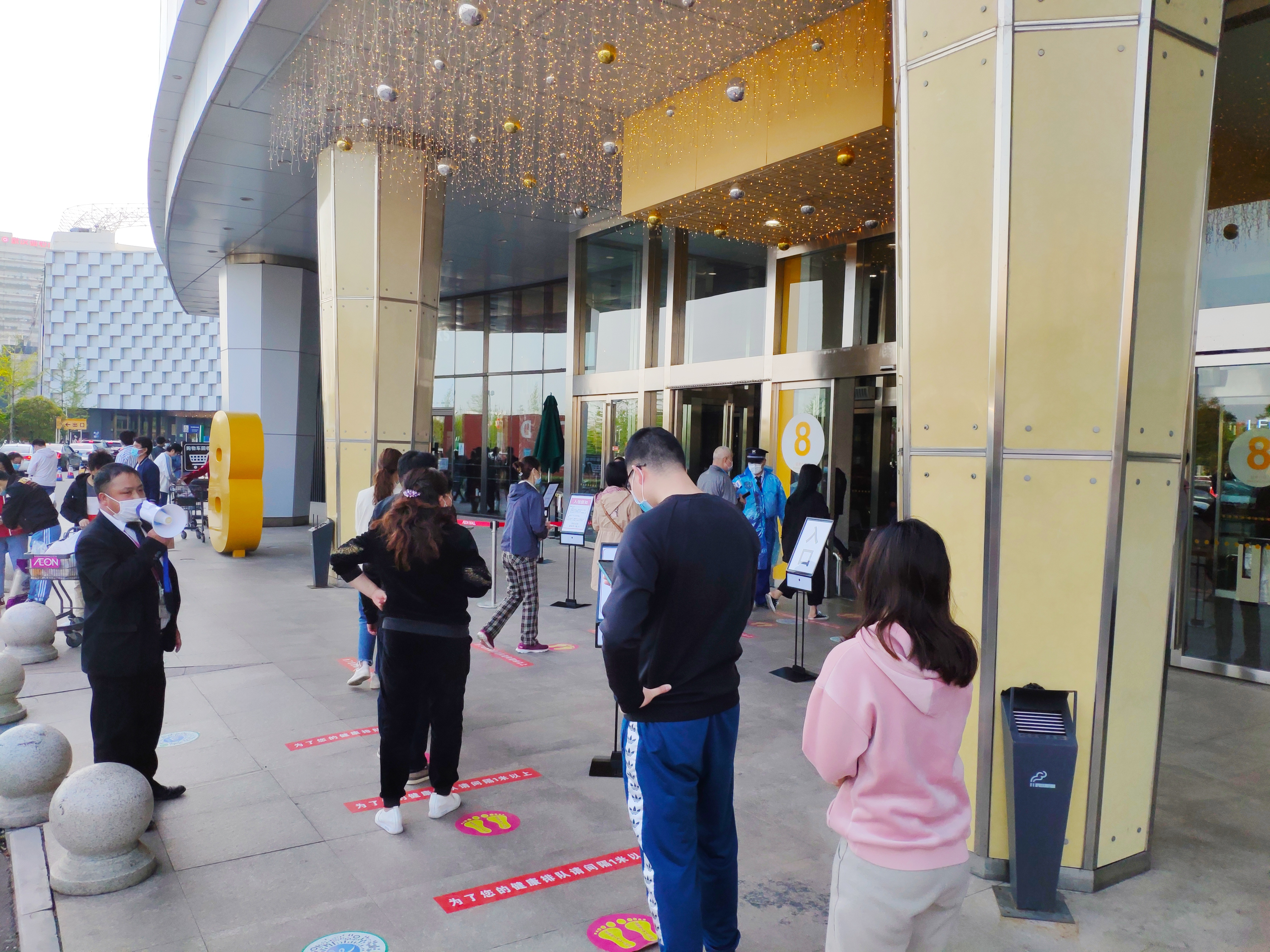 With the COVID-19 pandemic in Wuhan being under control, the Aeon Mall in Wuhan Economic & Technological Development Zone, which is the largest one in Asia, resumed operation.